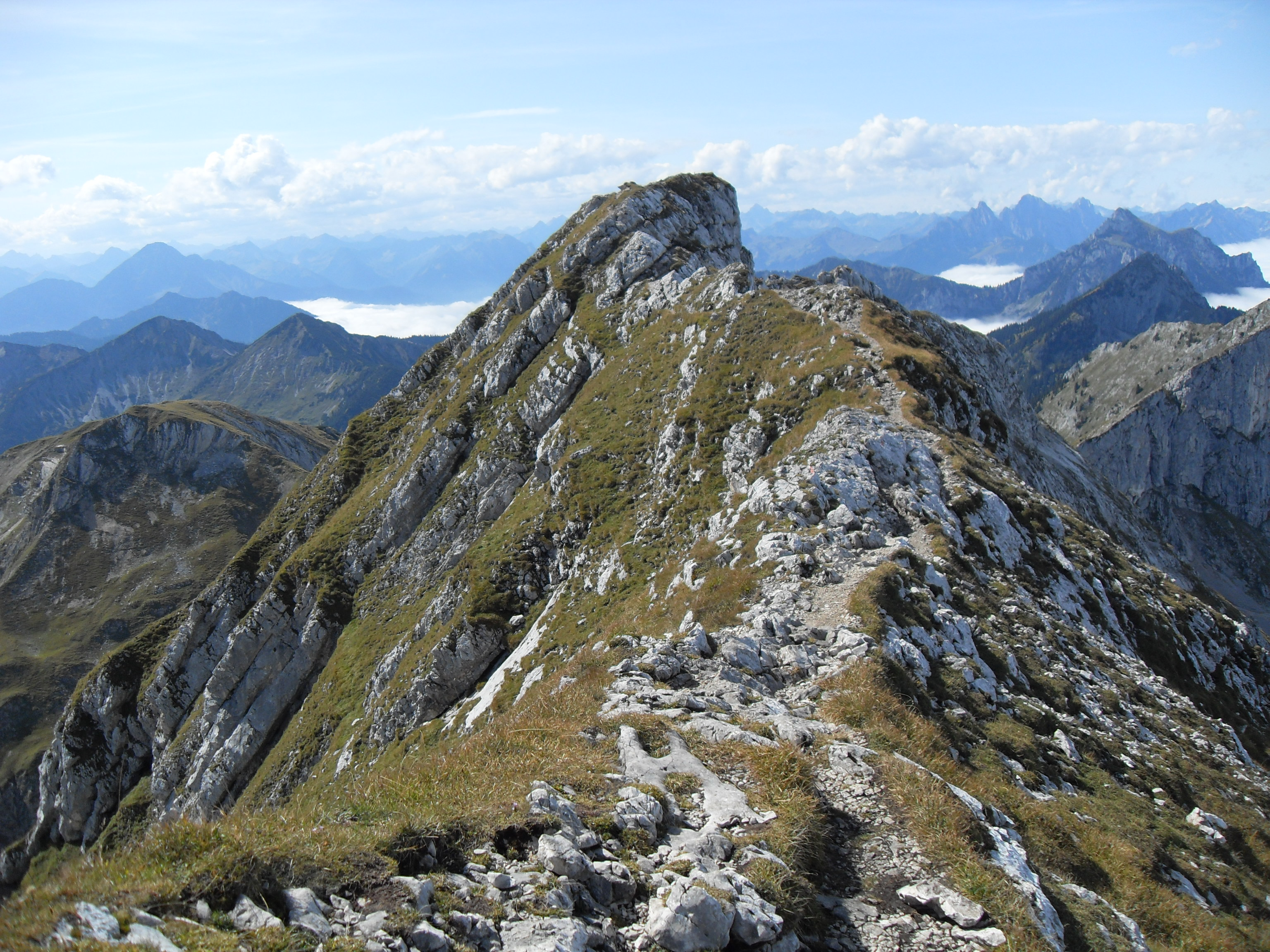 The summit of the Hochplatte mountain in the Bavarian Alps. Looking west along the ridge.